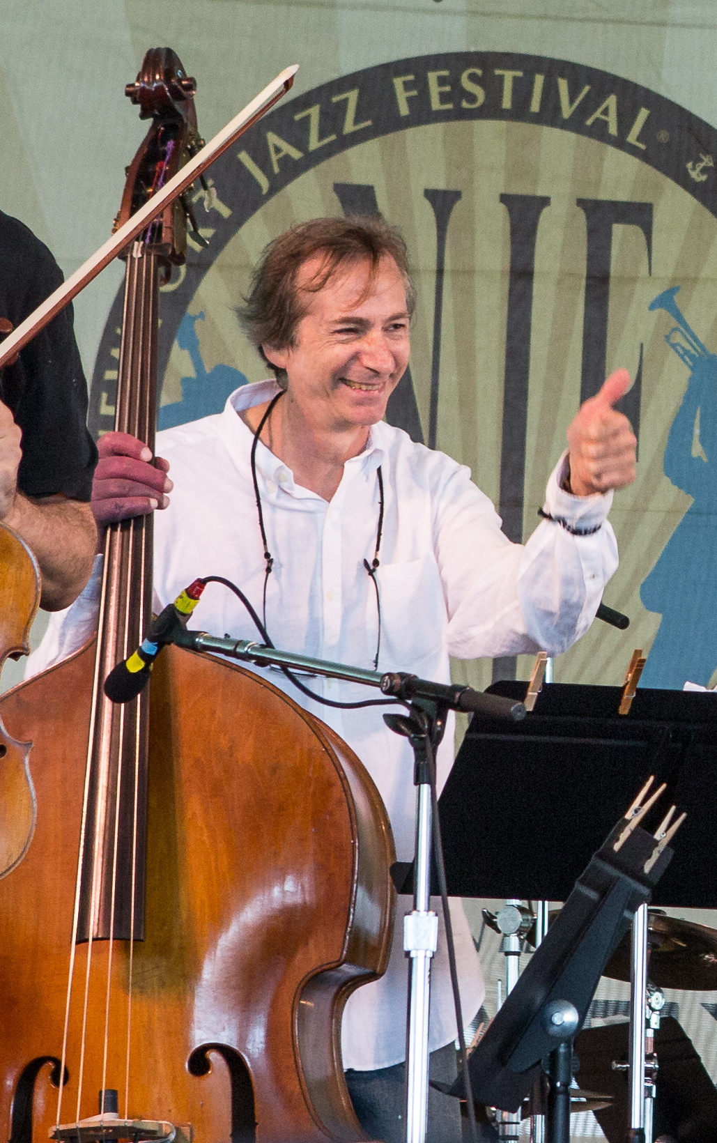 NEWPORT, RI - AUGUST 1: The 60th edition of the Newport Jazz Festival kicks off with a full day of programming, with John Zorn's Masada Marathon being the highlight of the day. Other acts include Mostly Other People Do The Killing, the world premiere of Rudresh Mahanthappa's Charlie Parker Project, Jon Batista & Stay Human, Darcy James Argue's Secret Society, Cécile McLorin Salvant, and the URI Jazz Festival Big Band. Shot on Friday, August 1, 2014.